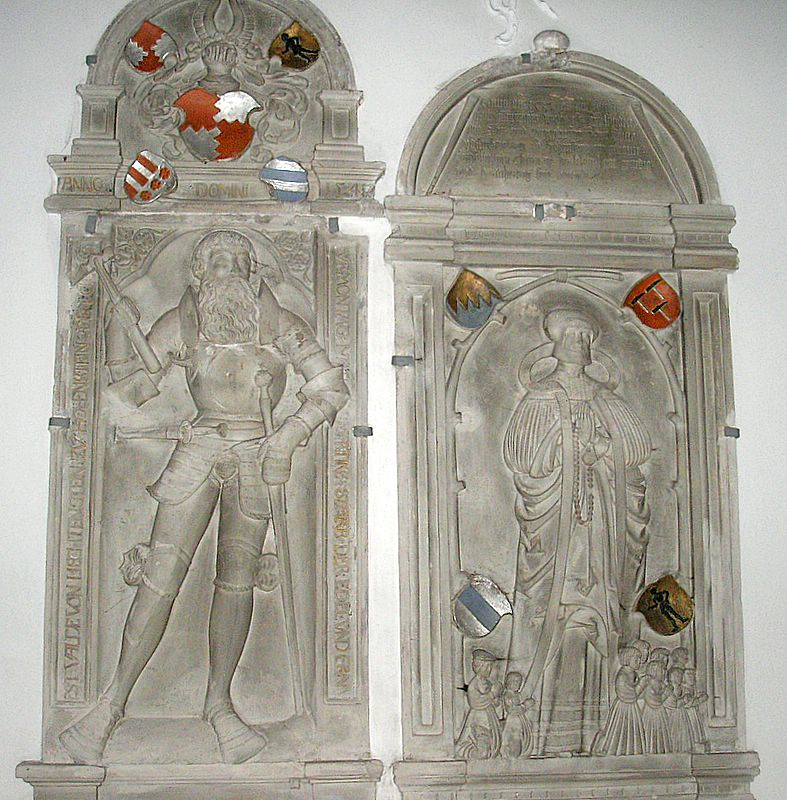 Parish church St. John Baptist (Seßlach near Coburg, Upper Franconia, Germany). Renaissance epitaphs of the von Lichtenstein family